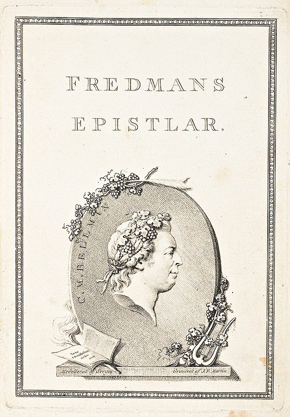 Frontispiece to Carl Michael Bellman's Fredmans epistlar, 1790, drawn by Johan Tobias Sergel and engraved by Johan Fredrik Martin.